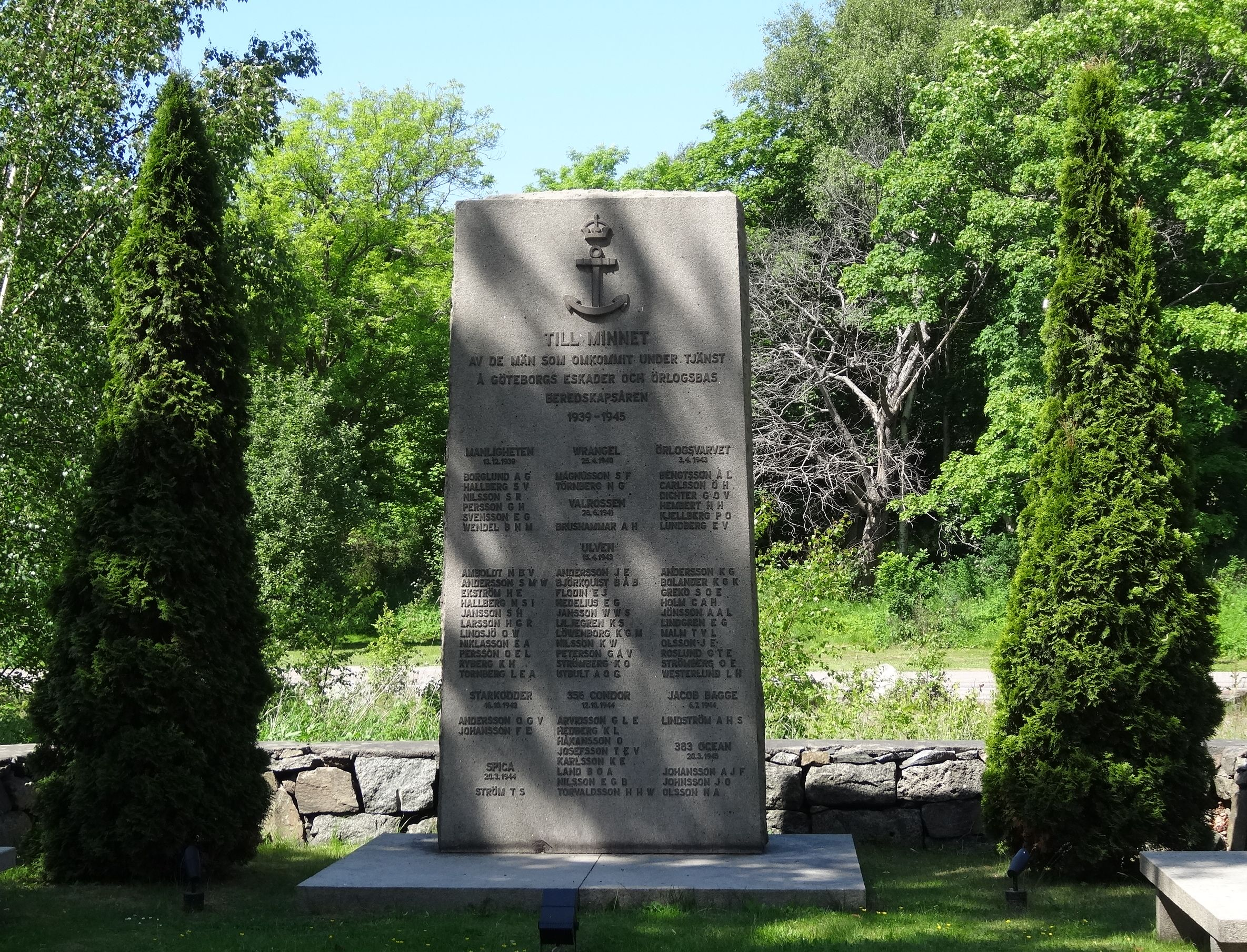 Monument at former navalbase Nya Varvet, Göteborg, in the memory of persons lost during WWII 1939-1945.